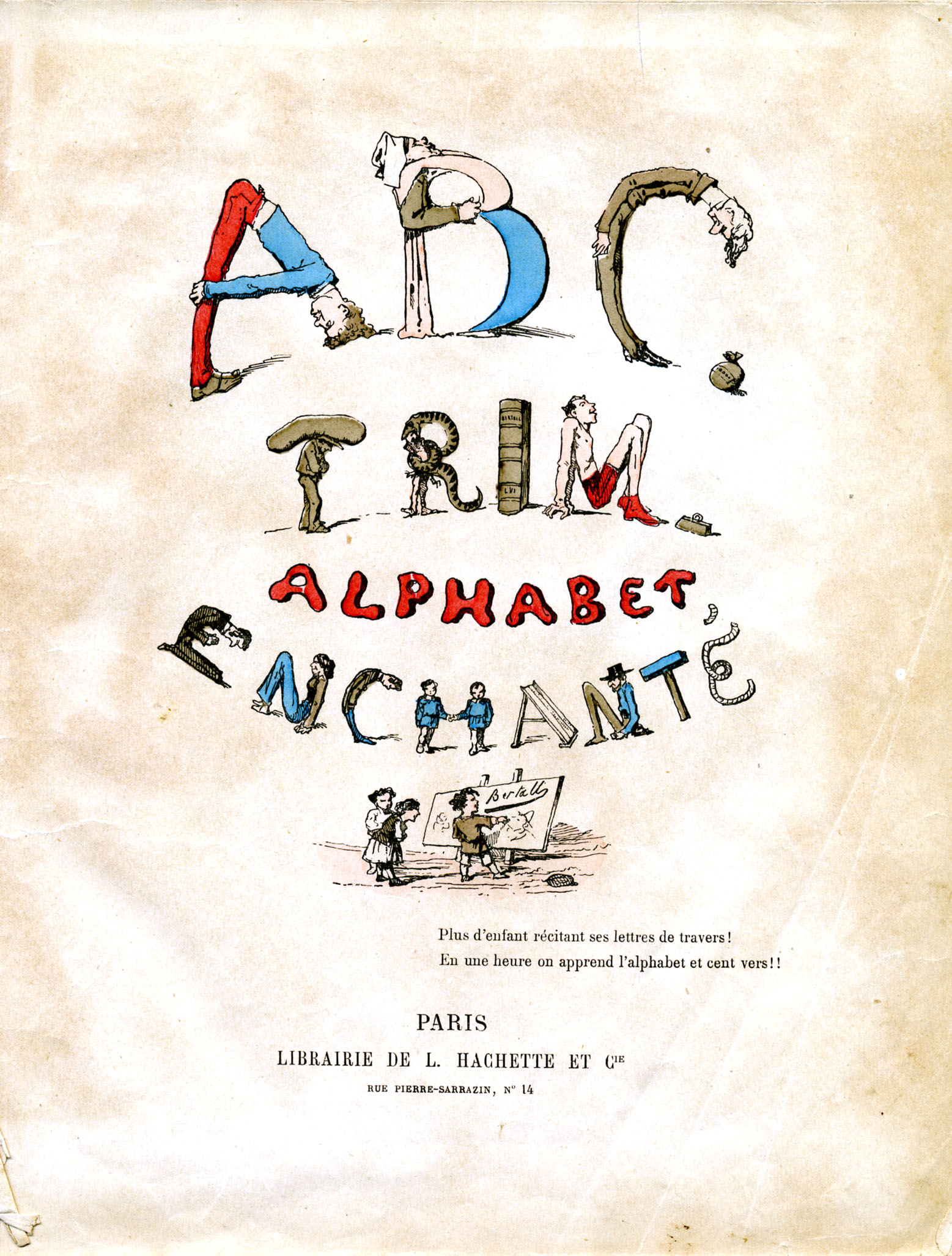 Title page of the book